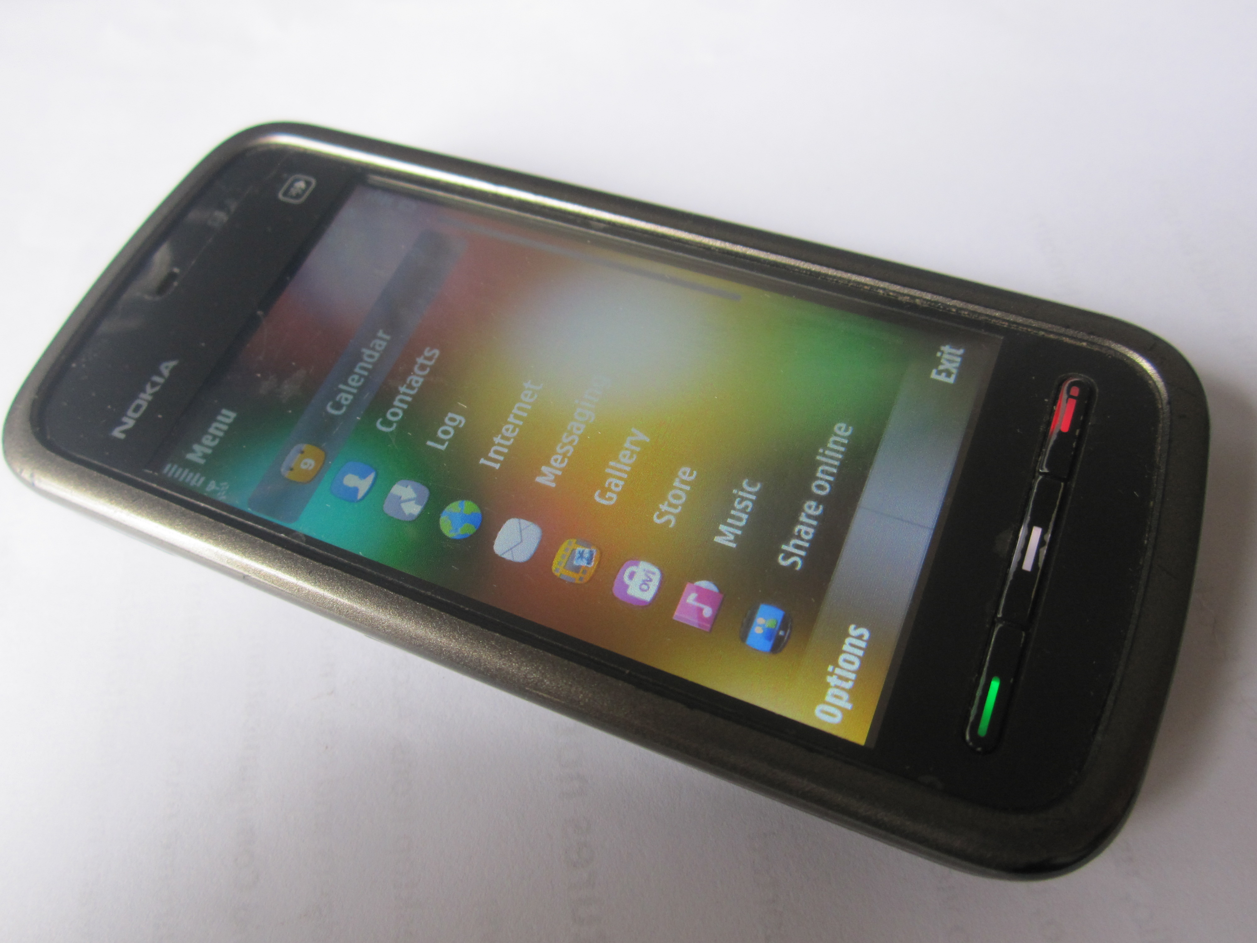 Nokia 5233